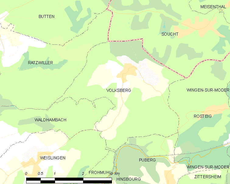 Map of French municipality